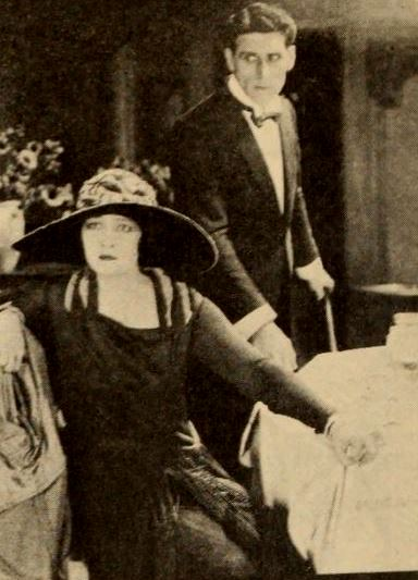 Still from the American drama film The Loves of Letty (1919) with Pauline Frederick, on page 106 of the December 13, 1919 Exhibitors Herald.